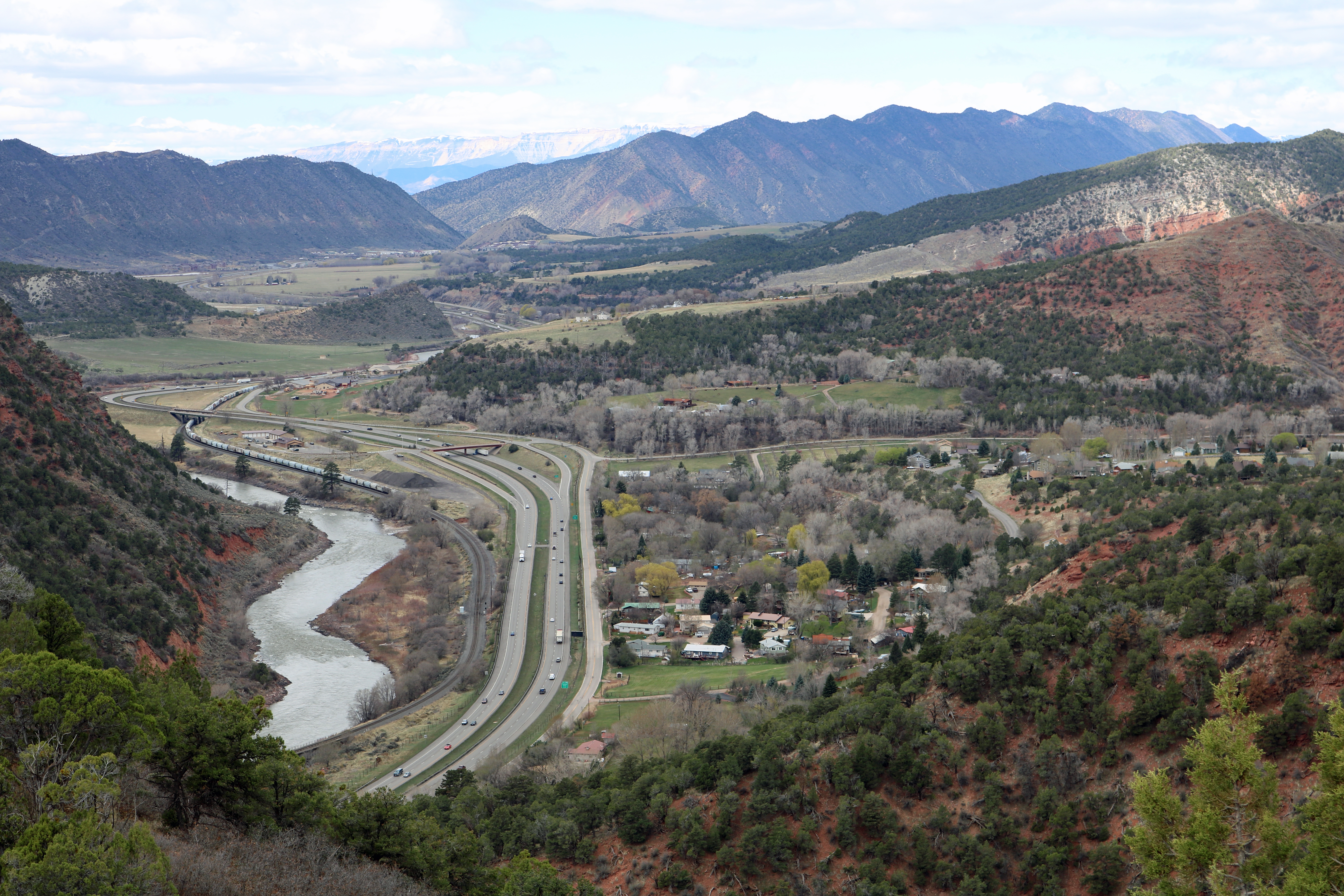 Chacra, Colorado in Garfield County. The picture also shows Interstate-70, the Colorado River, the Grand Hogback, and the Union Pacific rail line.